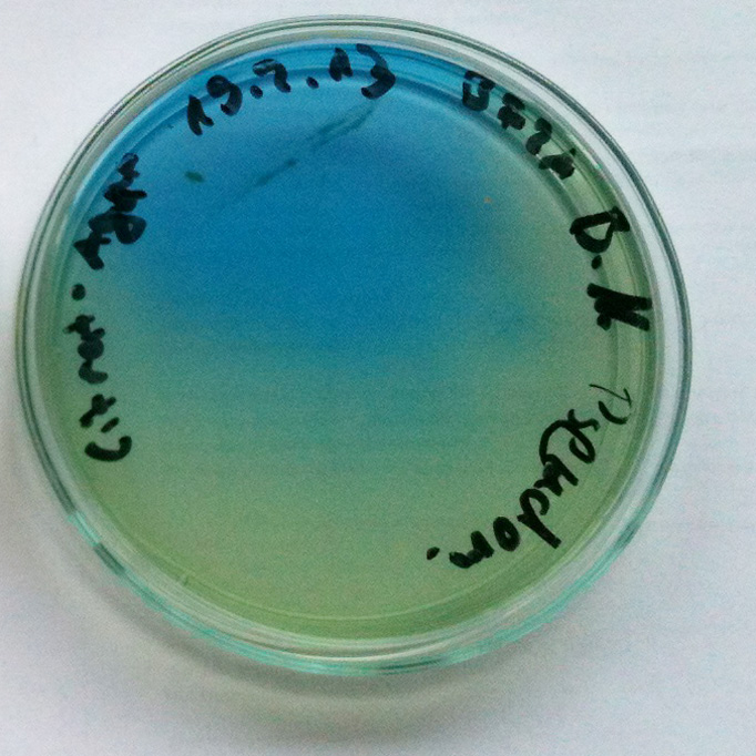 Pseudomonas fluorescens on Simmons citrate agar, showing a positive result (the microorganism has the ability to use citrate)